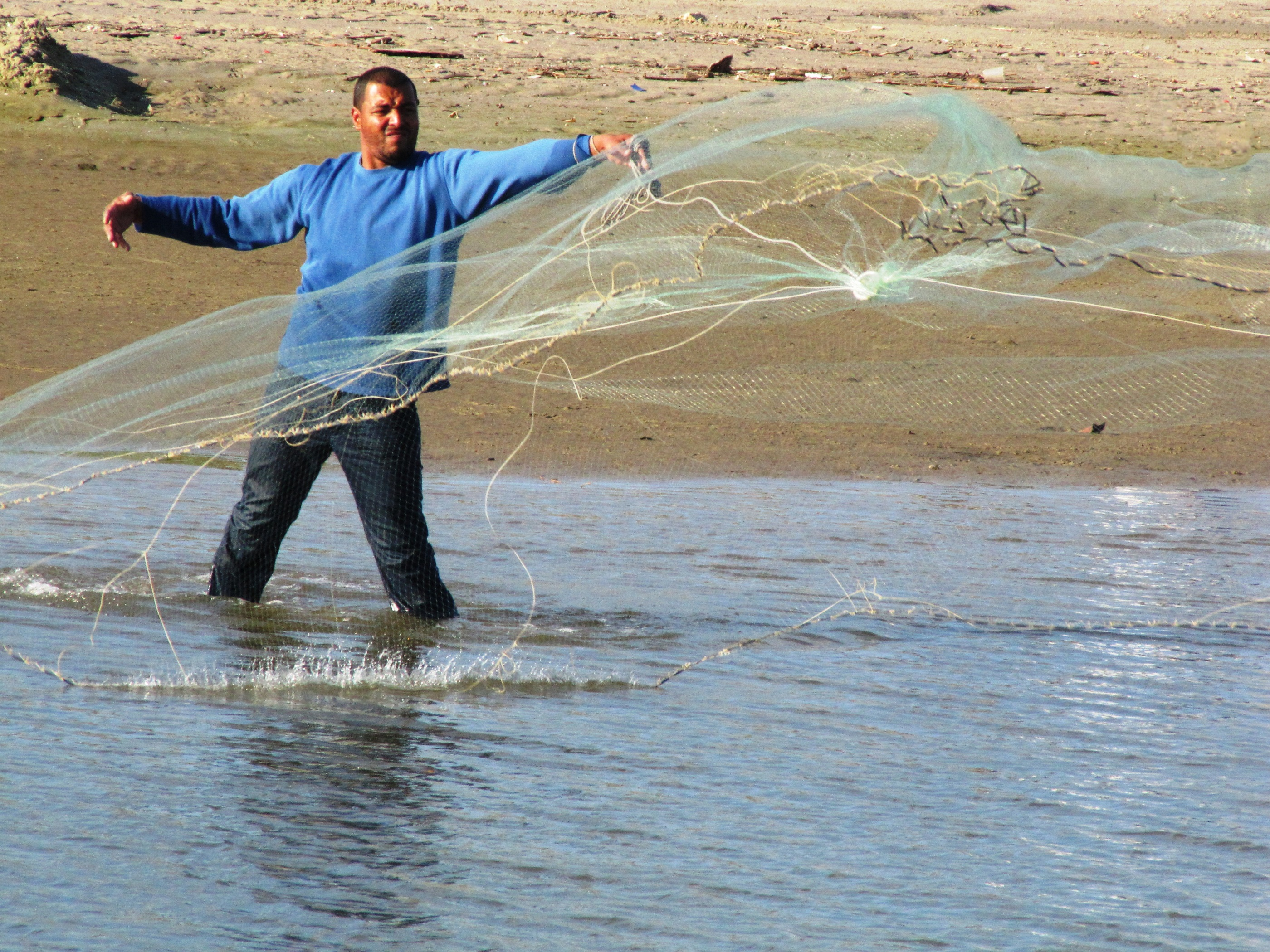 An Amateur fisherman casting a net in Hayarkon river, Tel-Aviv